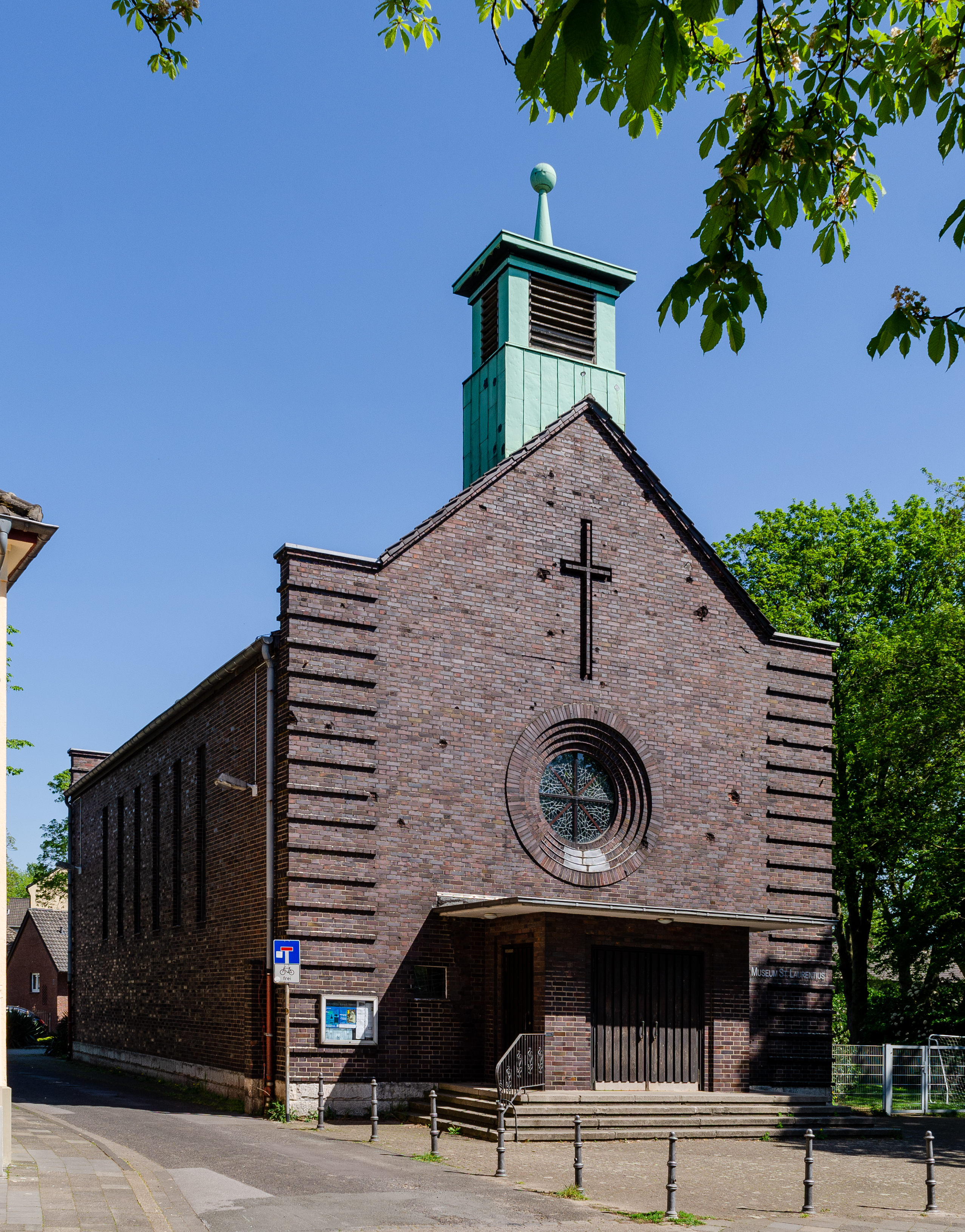 Duisburg (North Rhine-Westphalia, Germany) – borough Rheinhausen, district Friemersheim – Hohenbudberg railroaders' housing estate – former Catholic Saint Lawrence's Church, nowadays a museum